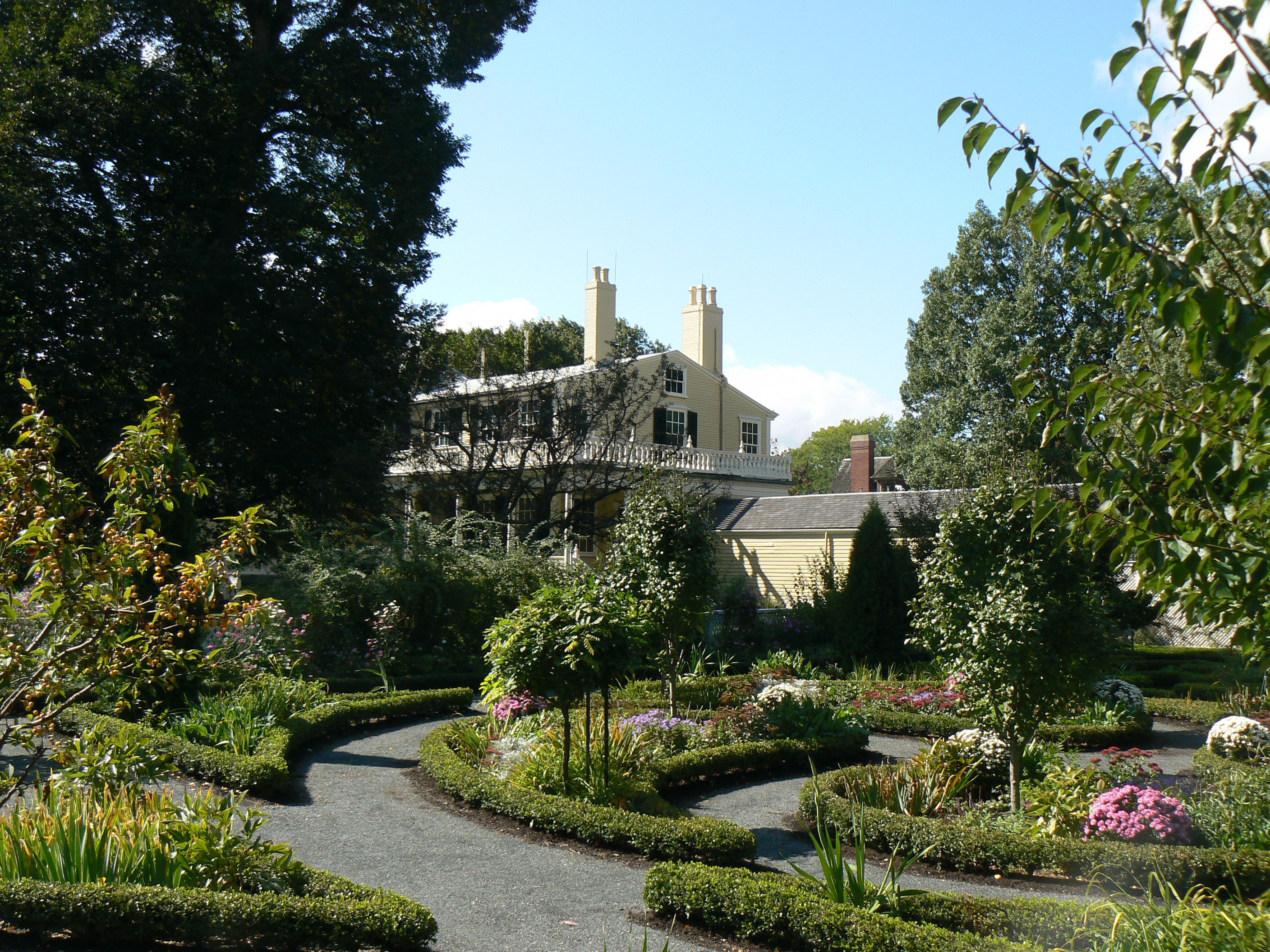 Garden at the Longfellow National Historic Site in Cambridge, Massachusetts - former home of American poet Henry Wadsworth Longfellow. The back end of his house is seen in the background.